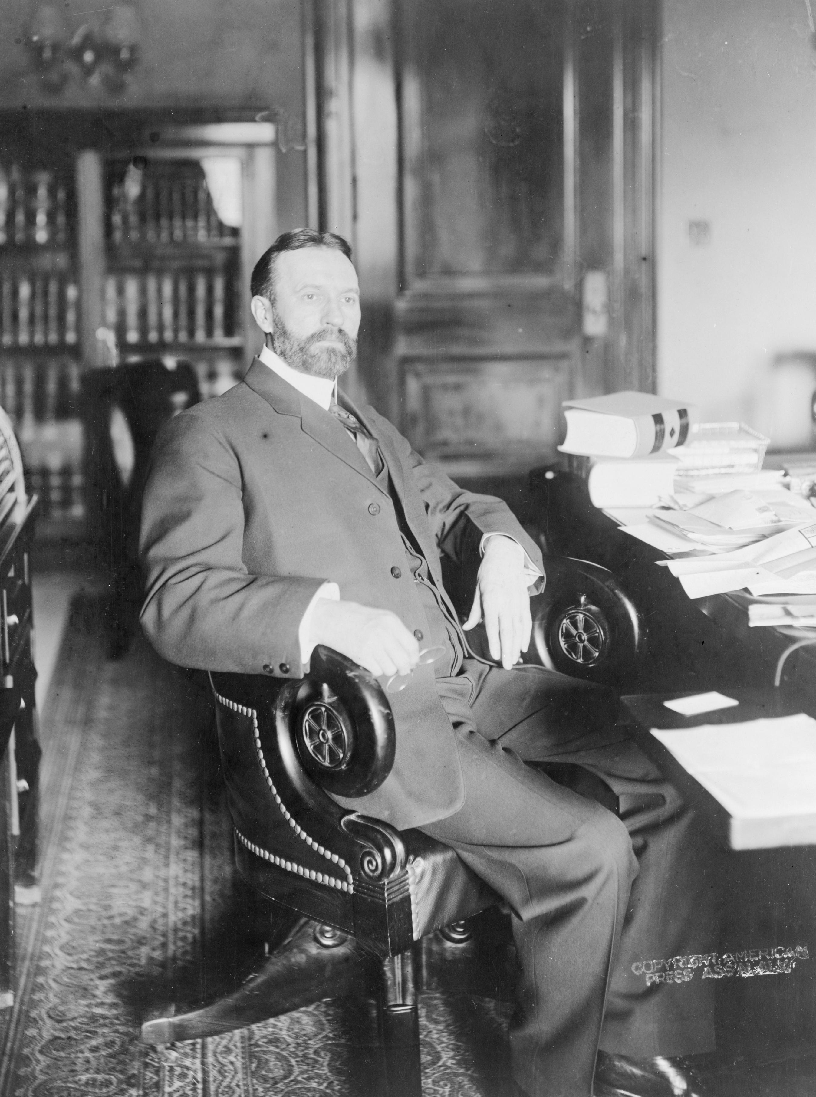 United States Senator George Sutherland from Utah